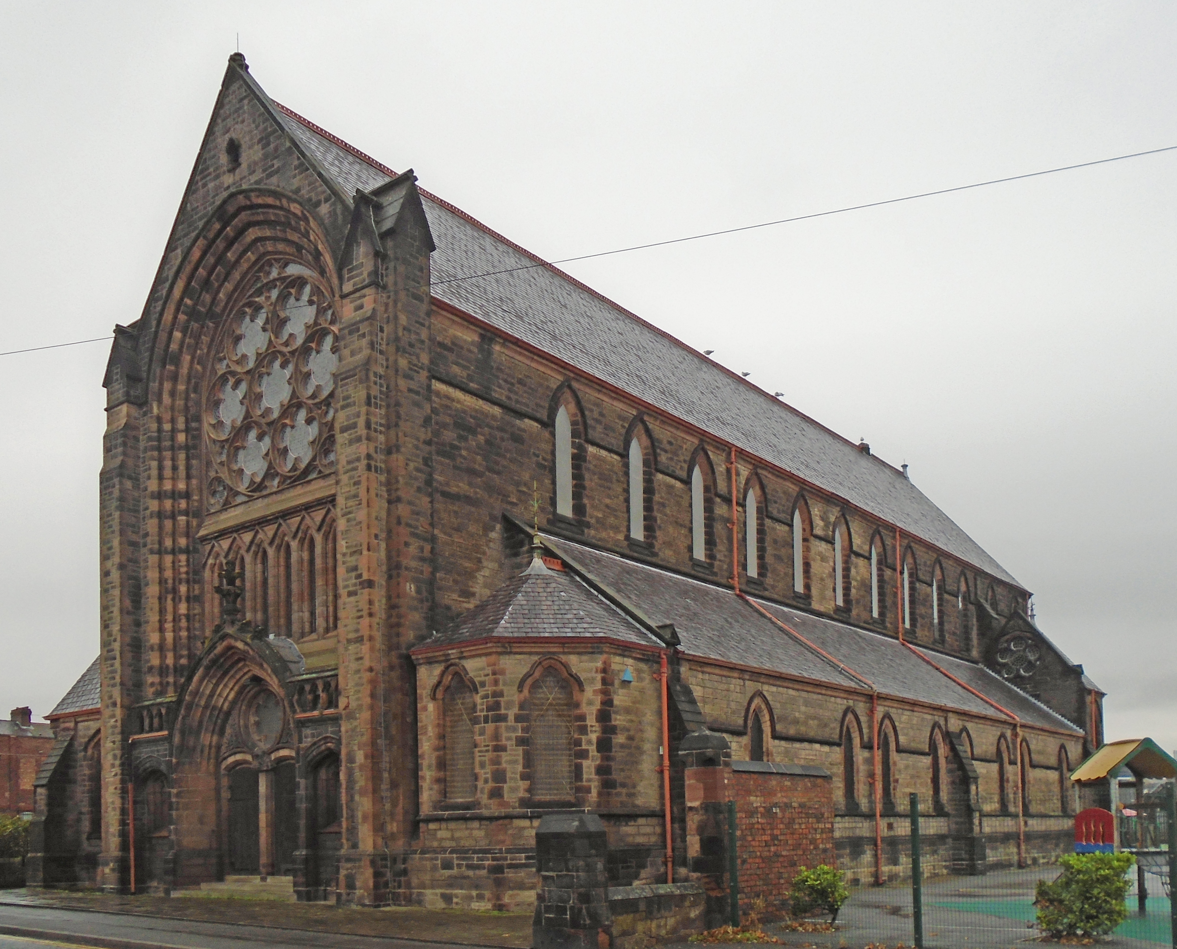 View from the southwest